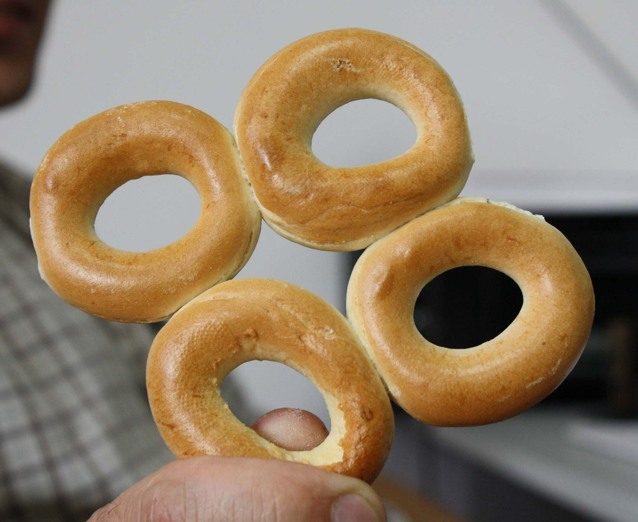 Four bubliks merged at the factory (bakery)